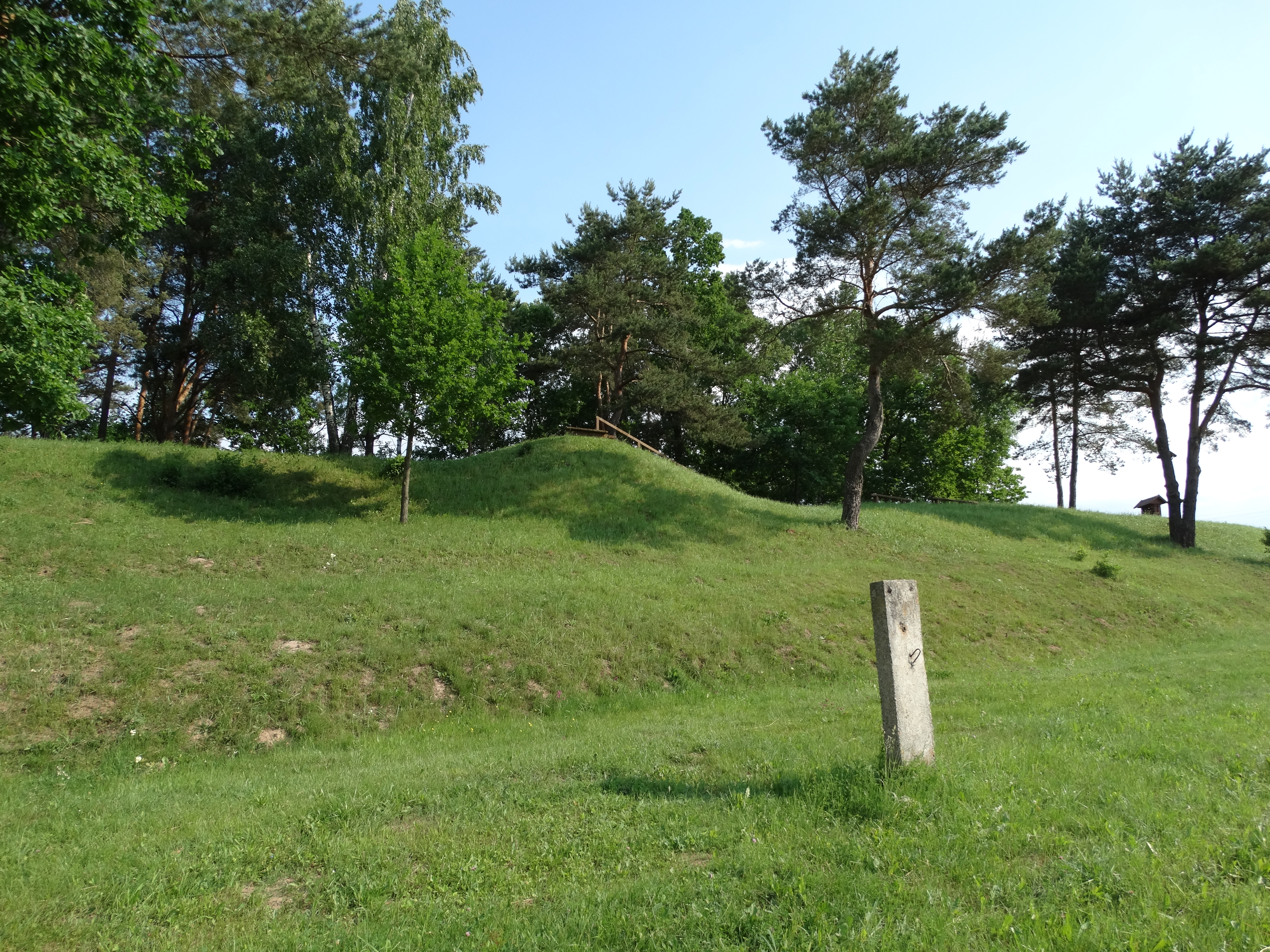 Hillfort Paberžė by Šilai, Jonava District, Lithuania